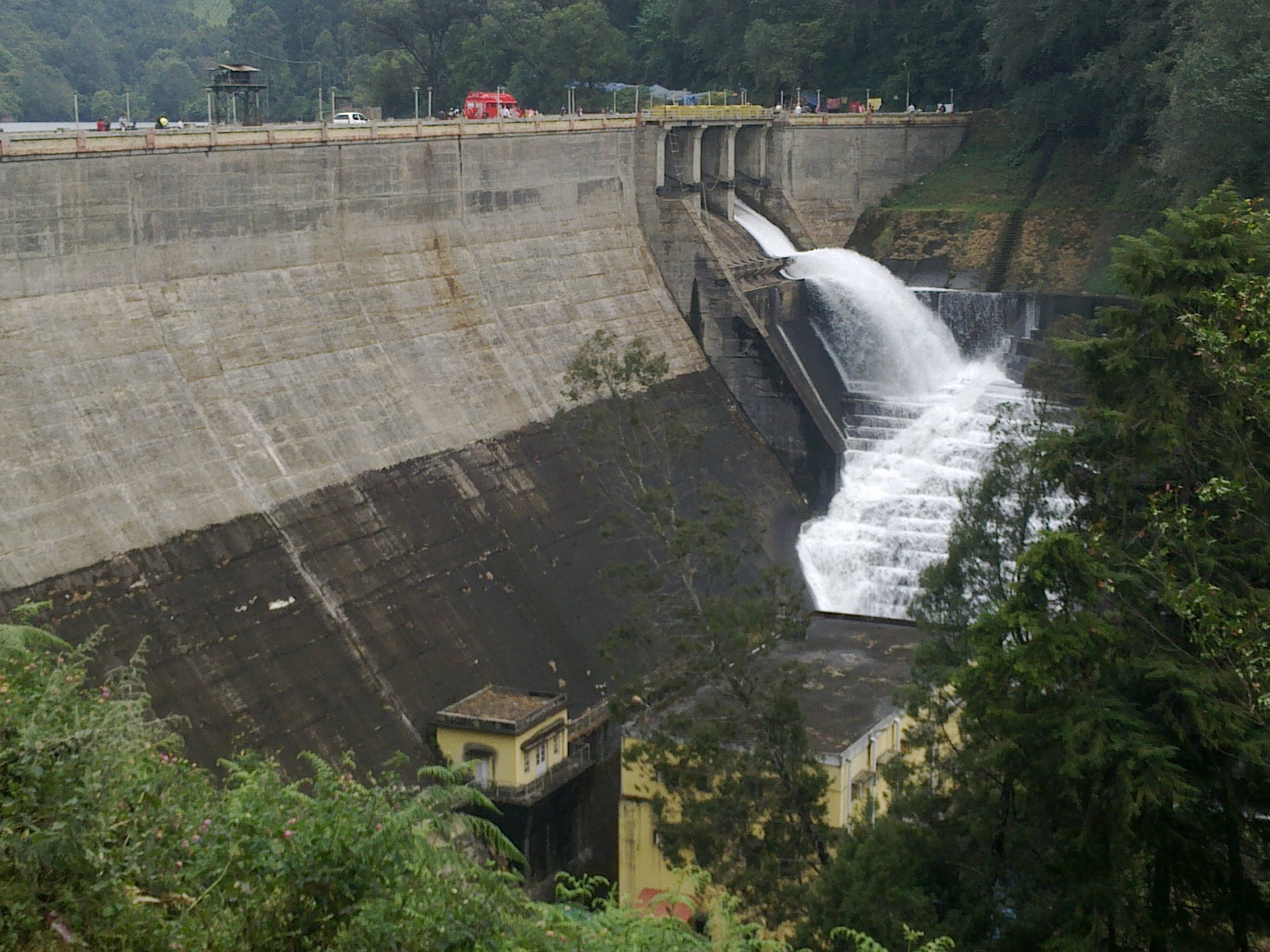 Image of Mattupetty Dam, located near Munnar in Kerala